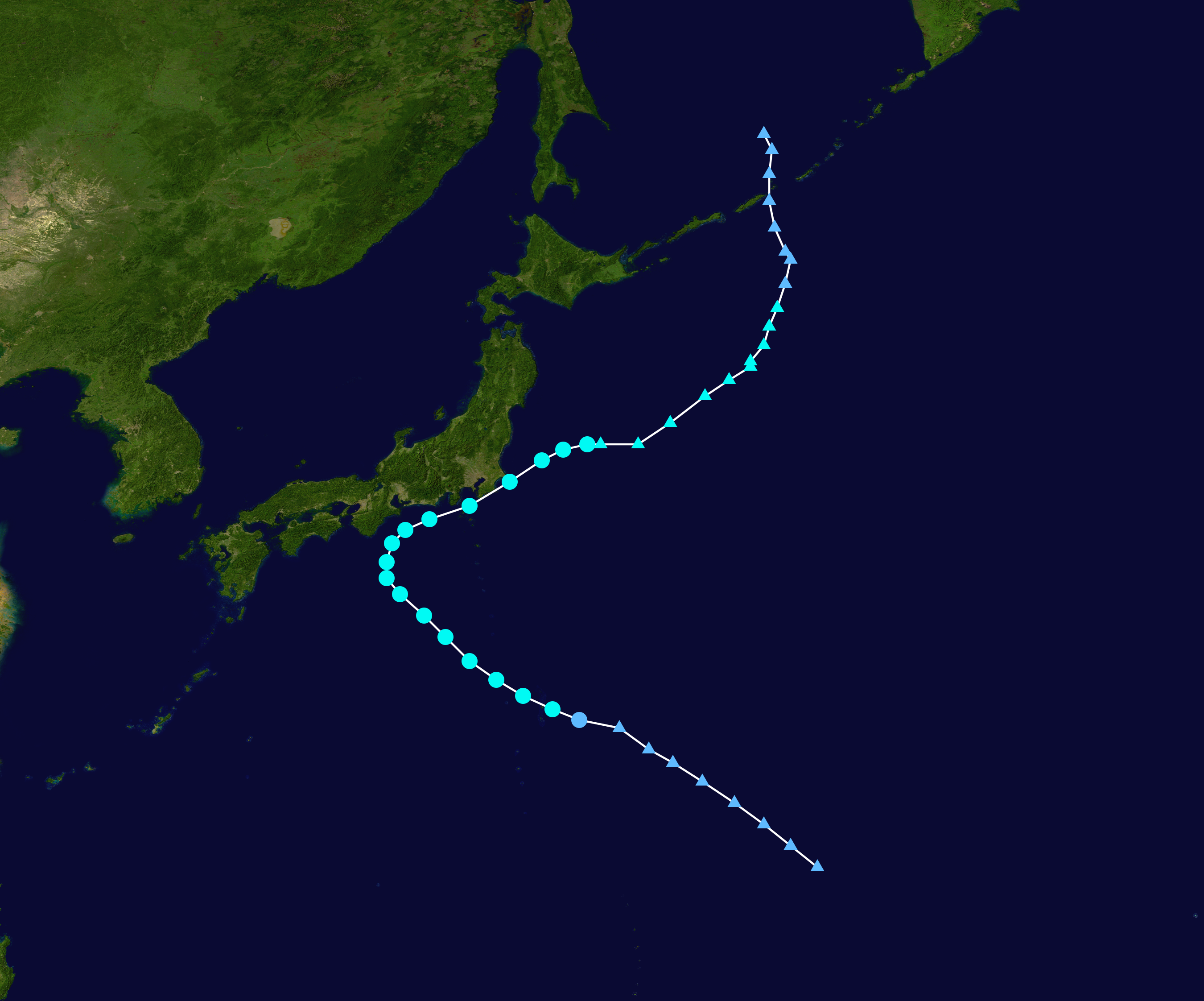 Tropical Storm Maria (2006) track. Uses the color scheme from the Saffir-Simpson Hurricane Scale.